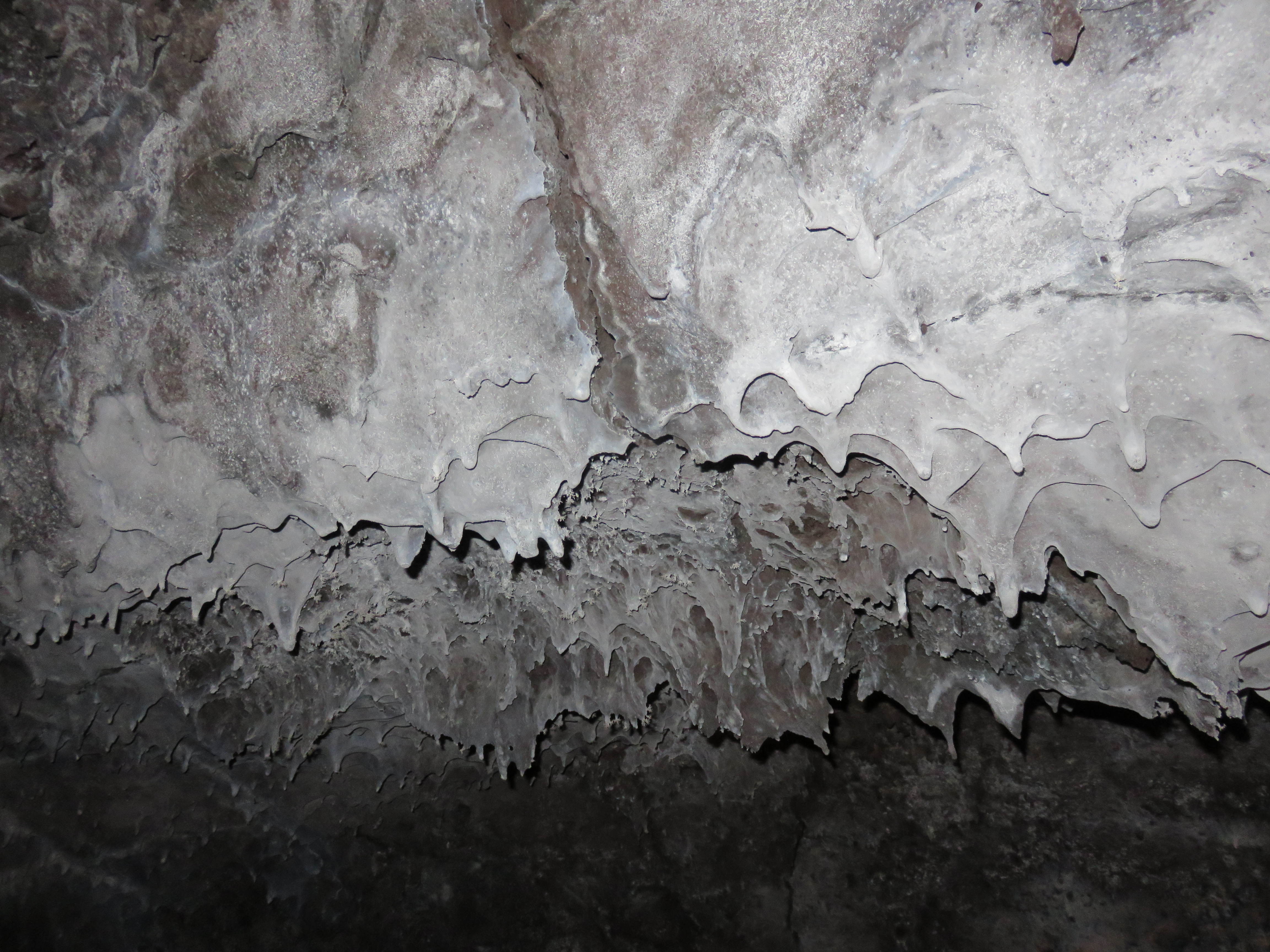 Stalactites in the El Vidrio volcanic tube